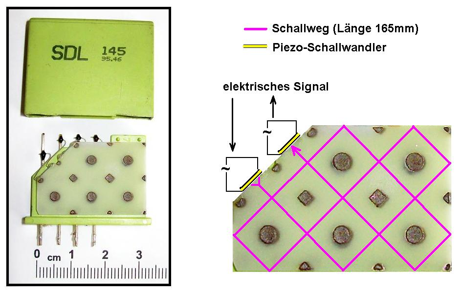 ultrasonic delay line from a color TV (delay time 64 µs) left side: total view, case opened right side: how it works